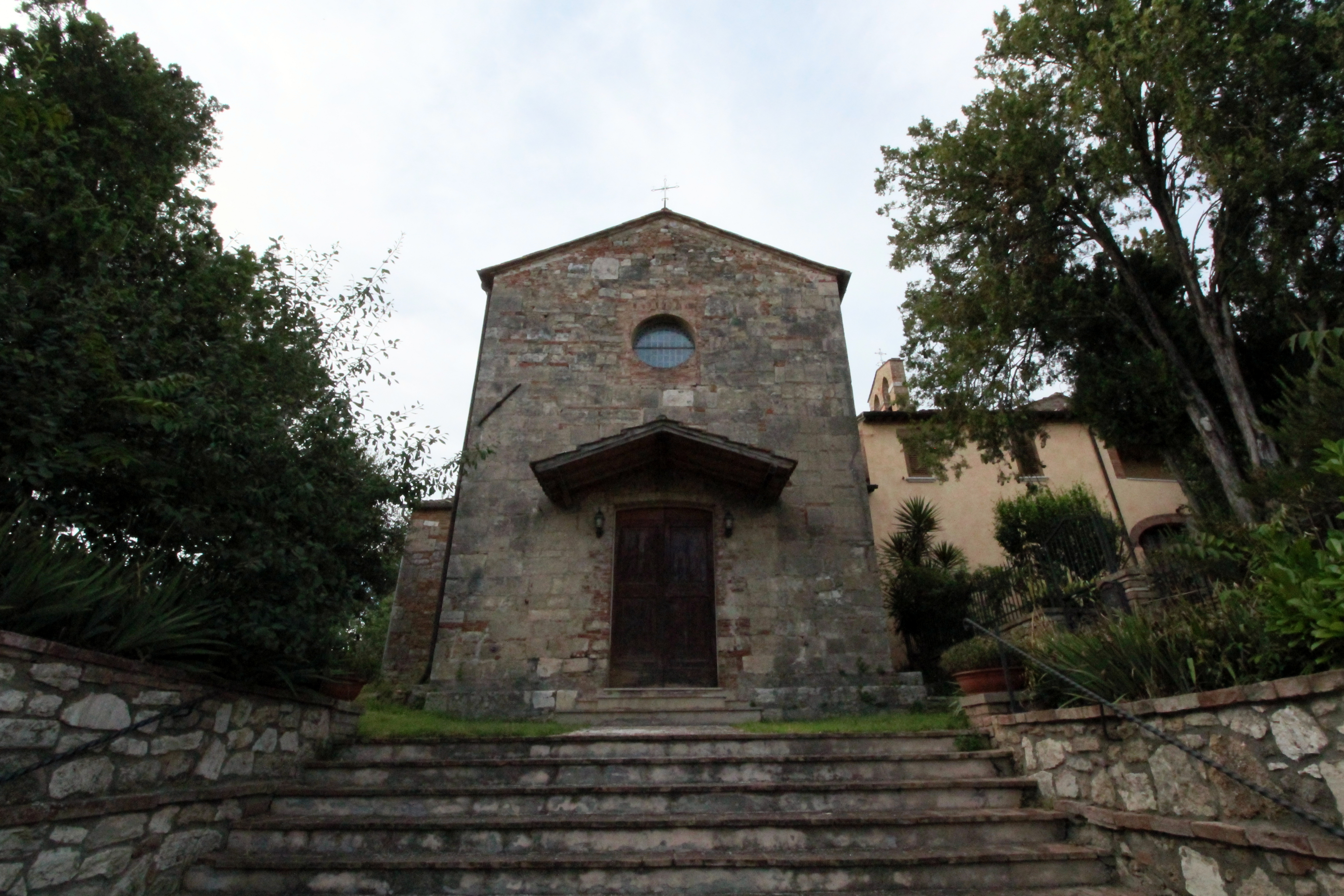 Church San Giovanni Battista, in Pievina, village of Asciano, Province of Siena, Tuscany, Italy